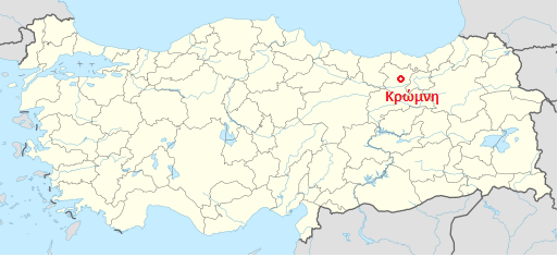 Kromni Pontou location.